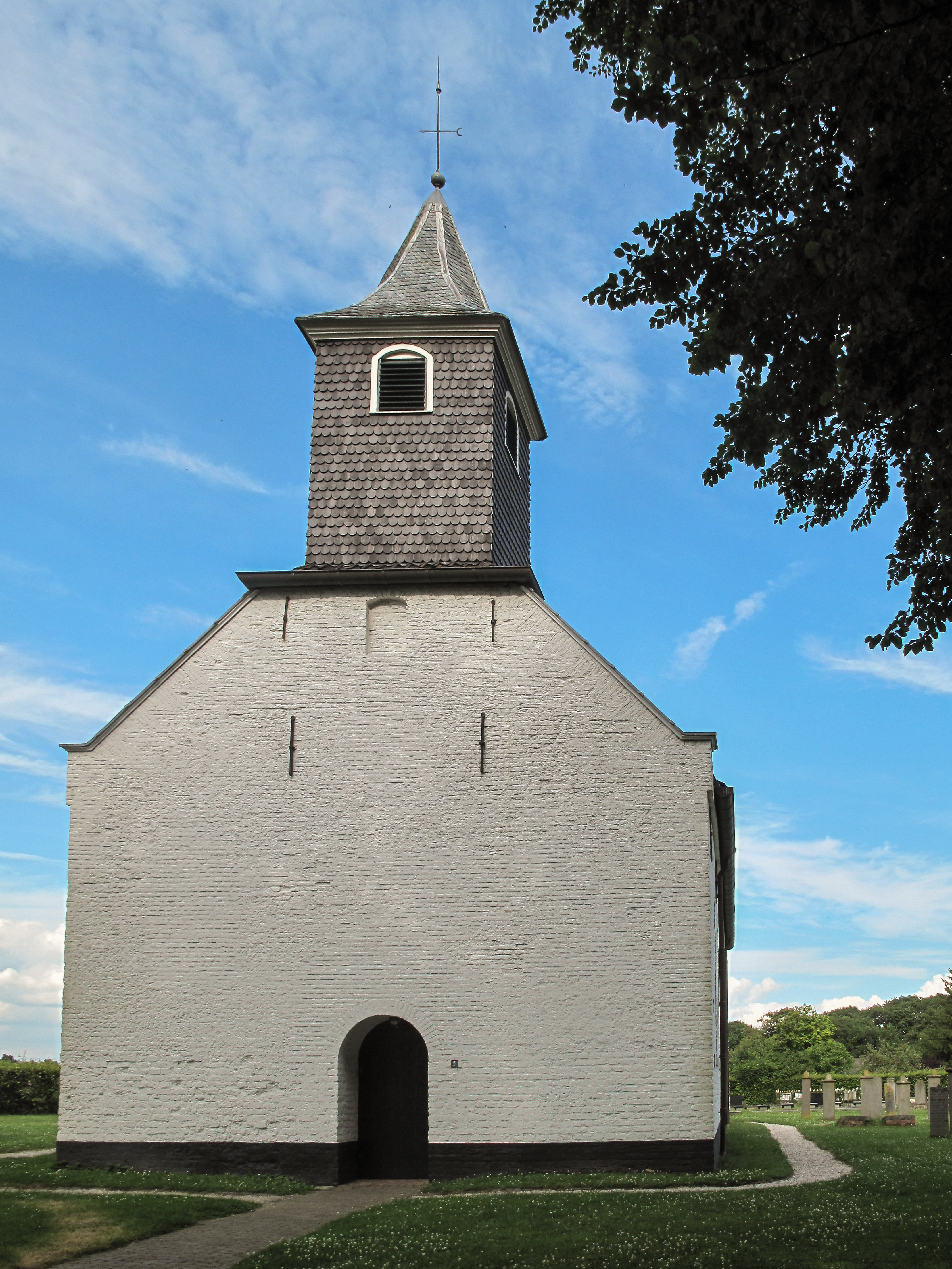 Gasselte, reformed church